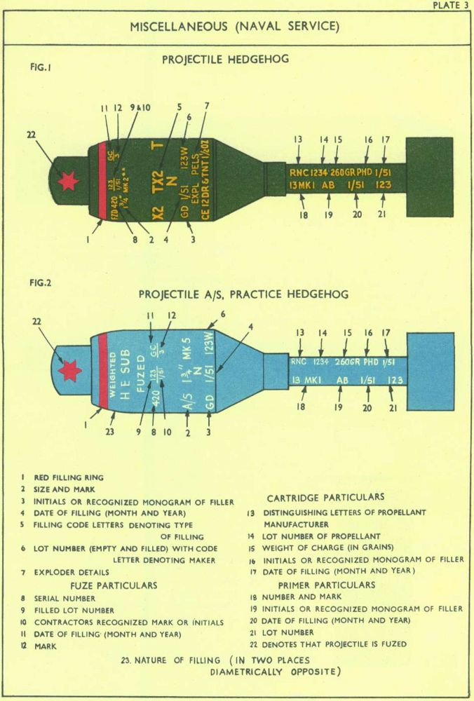 Diagrams depicting markings on live and practice projectiles for Hedgehog anti-submarine mortar. Size 1¾" (Label 2) refers to the size in inches of the spigot over which the bomb fits when loaded.